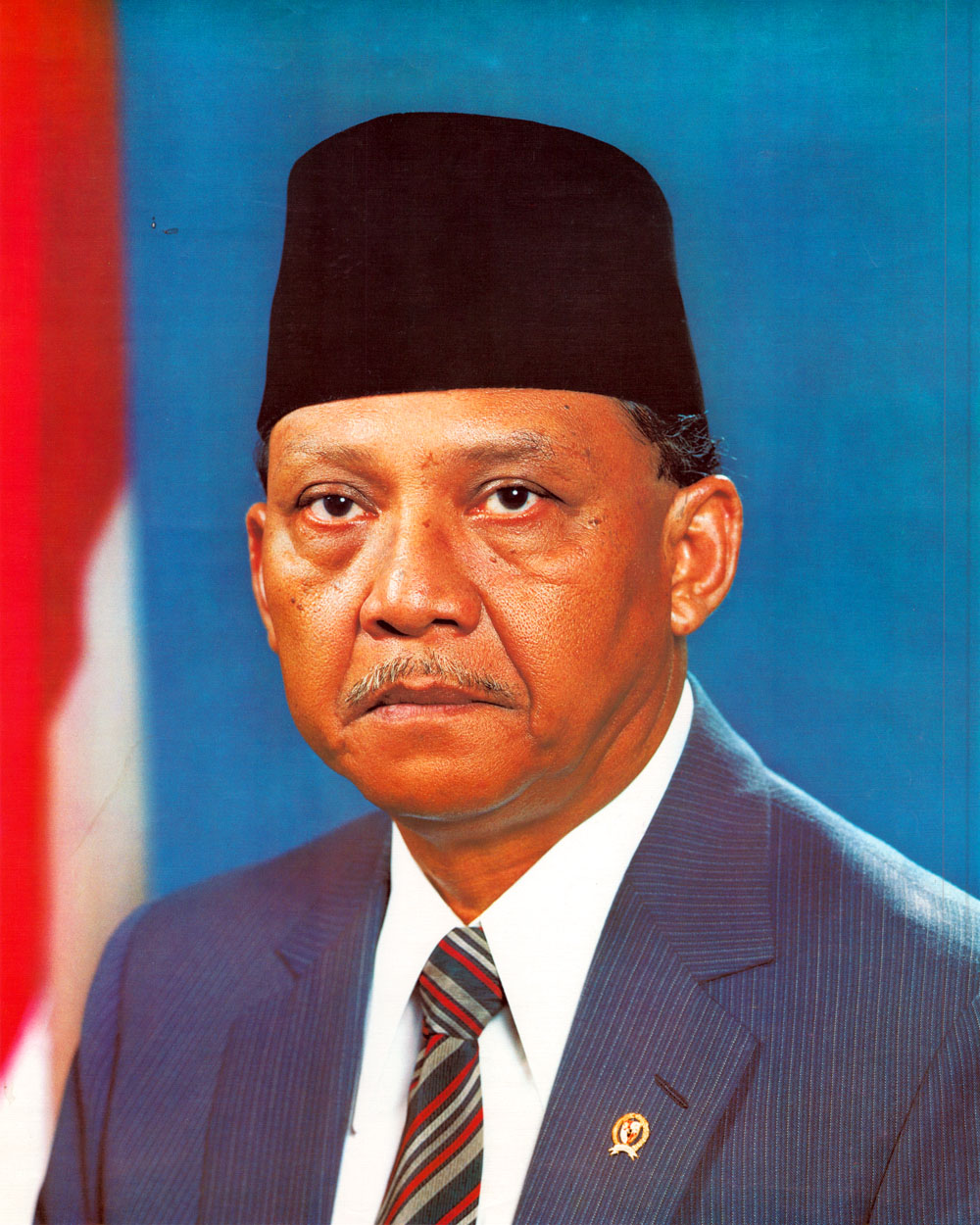 Official portrait of Umar Wirahadikusumah as Vice President of Indonesia.